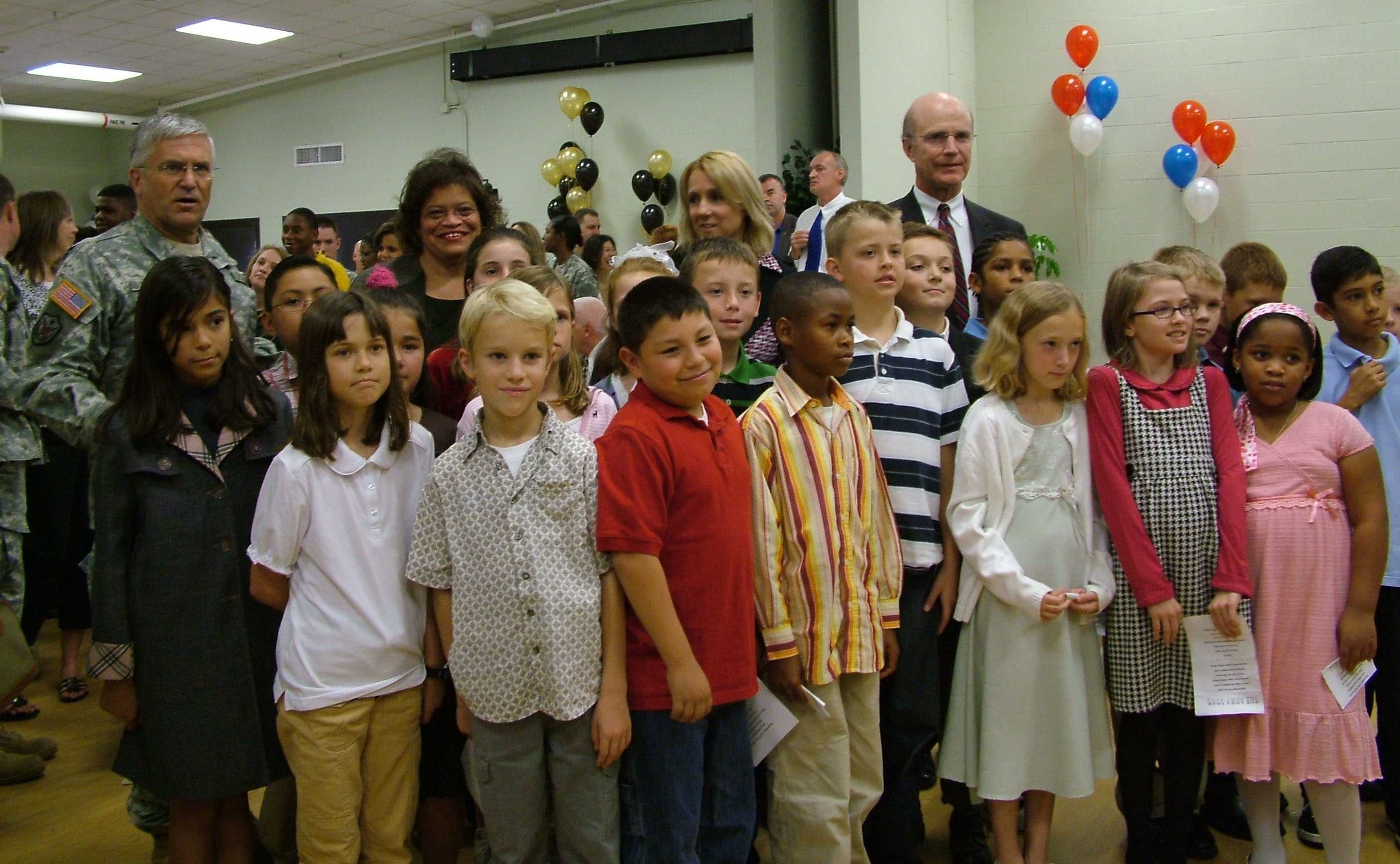 Chief of Staff of the Army Gen. George W. Casey, Jr. and Secretary of the Army Pete Geren pose with local fourth-grade students after signing the Army Family Covenant in Fort Knox, Ky. The covenant pledges to improve education and childcare for Army Families.